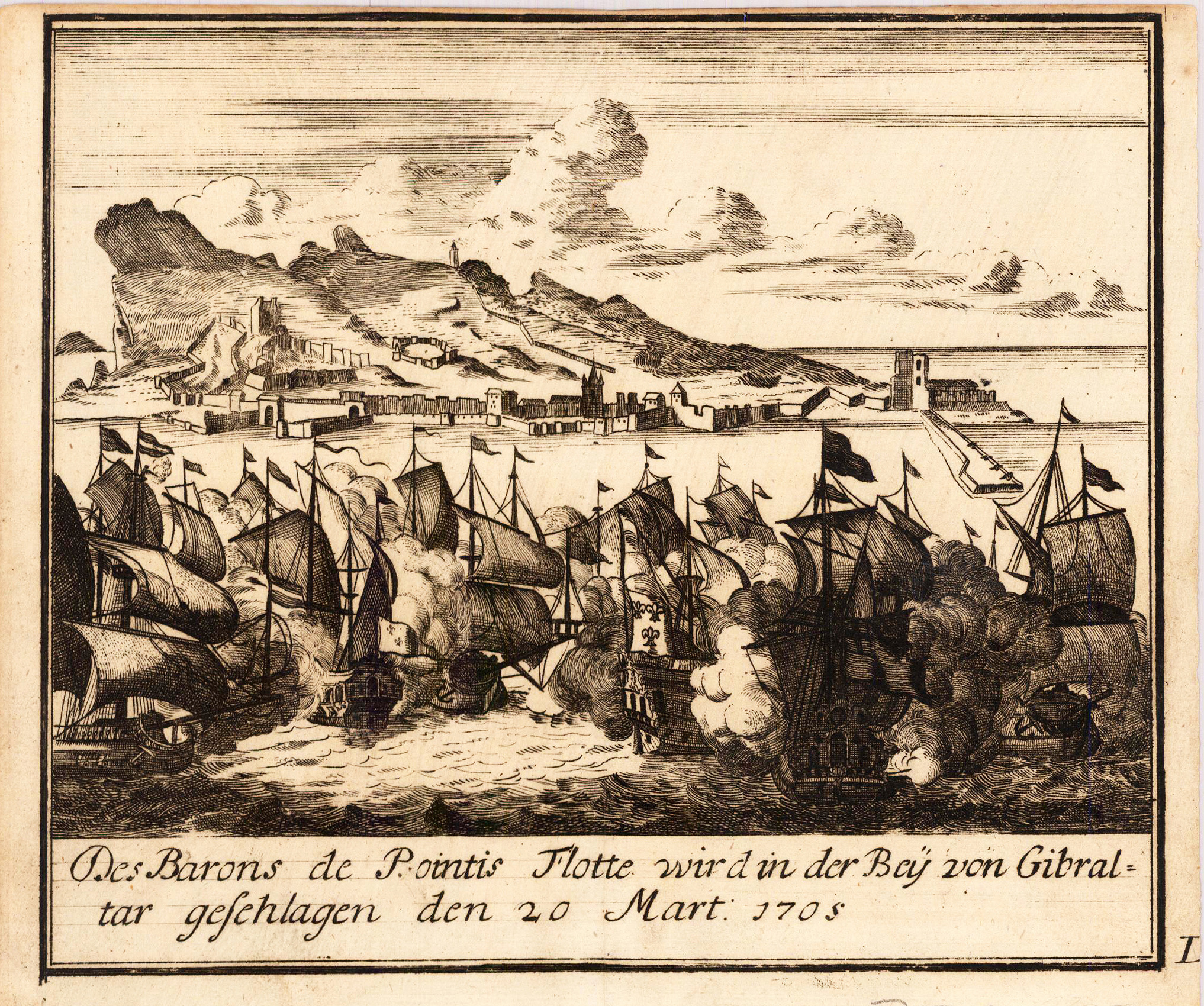 Copper engraving, uncolored as published. Decorative scenes of the Spanish war of succession 1701-14. Des Barons de Pointis Flotte wird in der Bey von Gibraltar geschlagen den 20 Mart: 1705